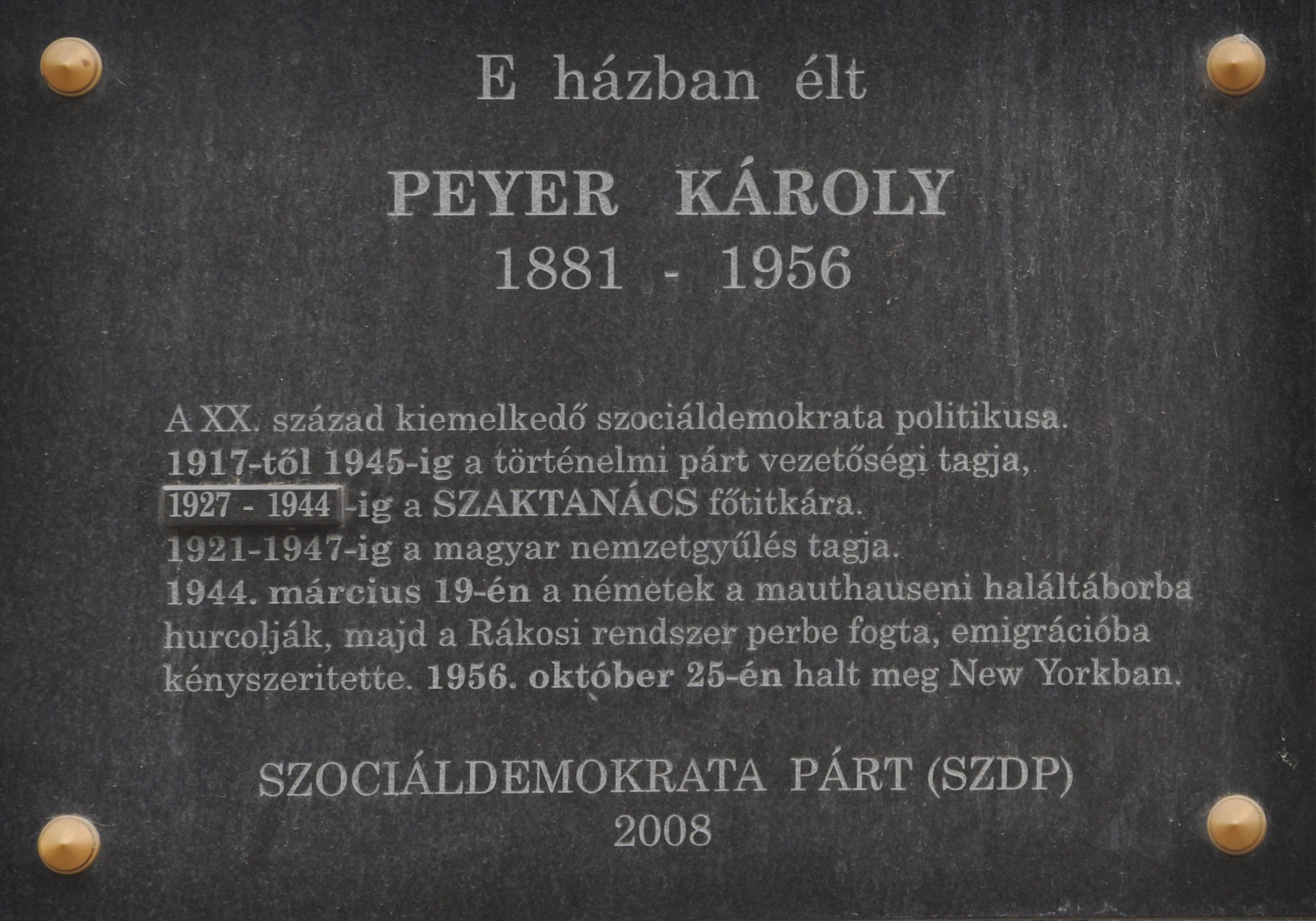 Commemorative plaque of Károly Peyer in Budapest District XIII, Tátra Street 20/b